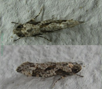 Tiquadra guillermeti - moth from Réunion